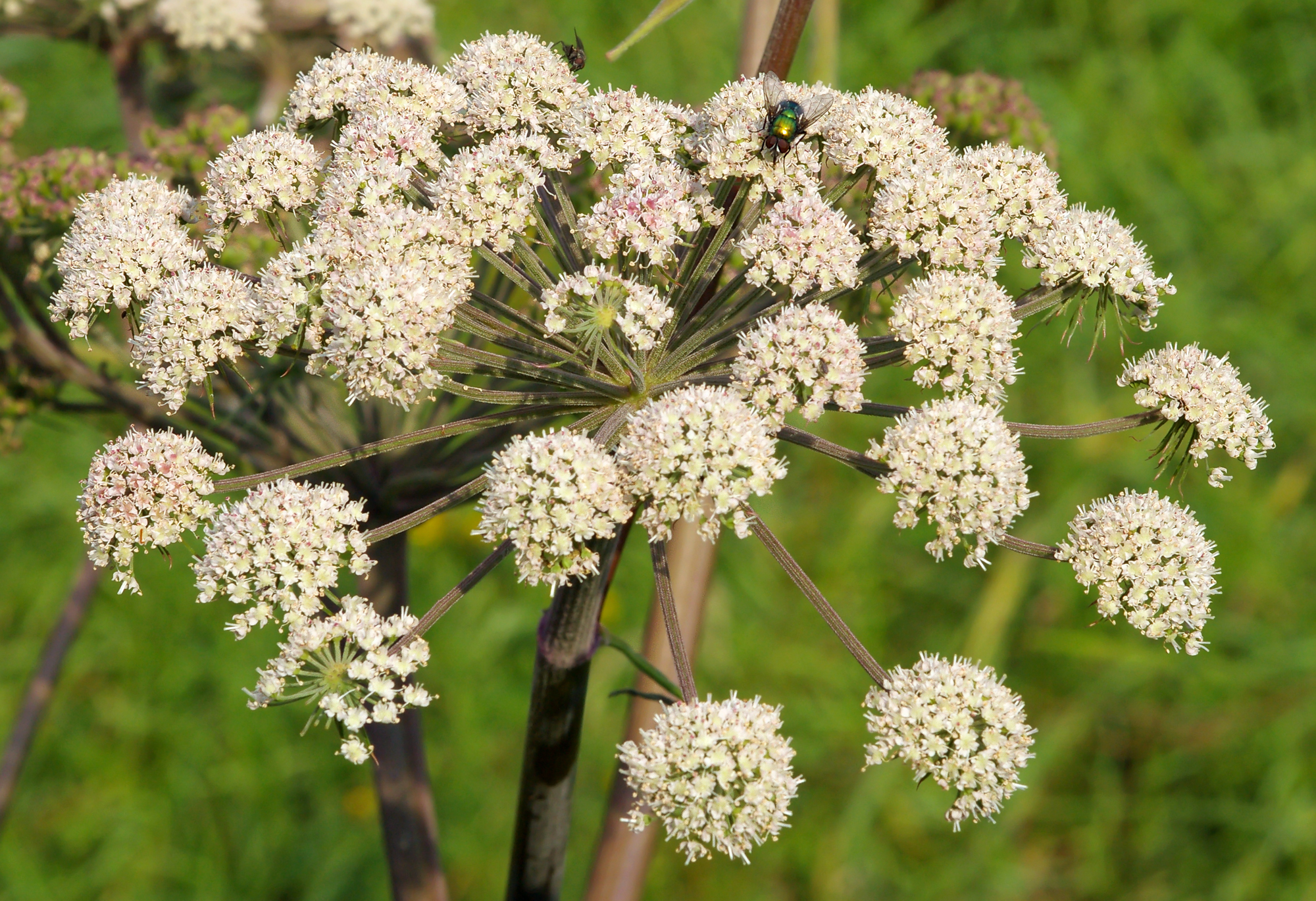 Inflorescence of Wild Angelica, Angelica sylvestris (Apiaceae).